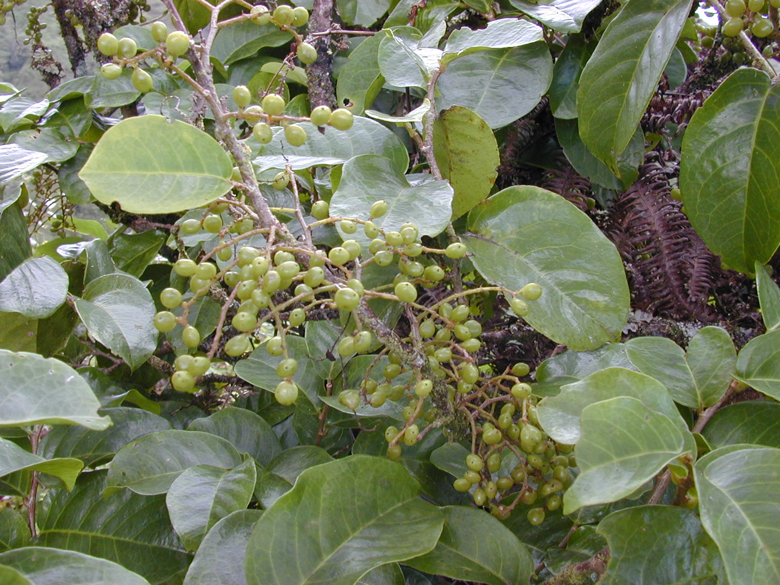 Antidesma platyphyllum (fruits). Location: Maui, Waihee Ridge Trail